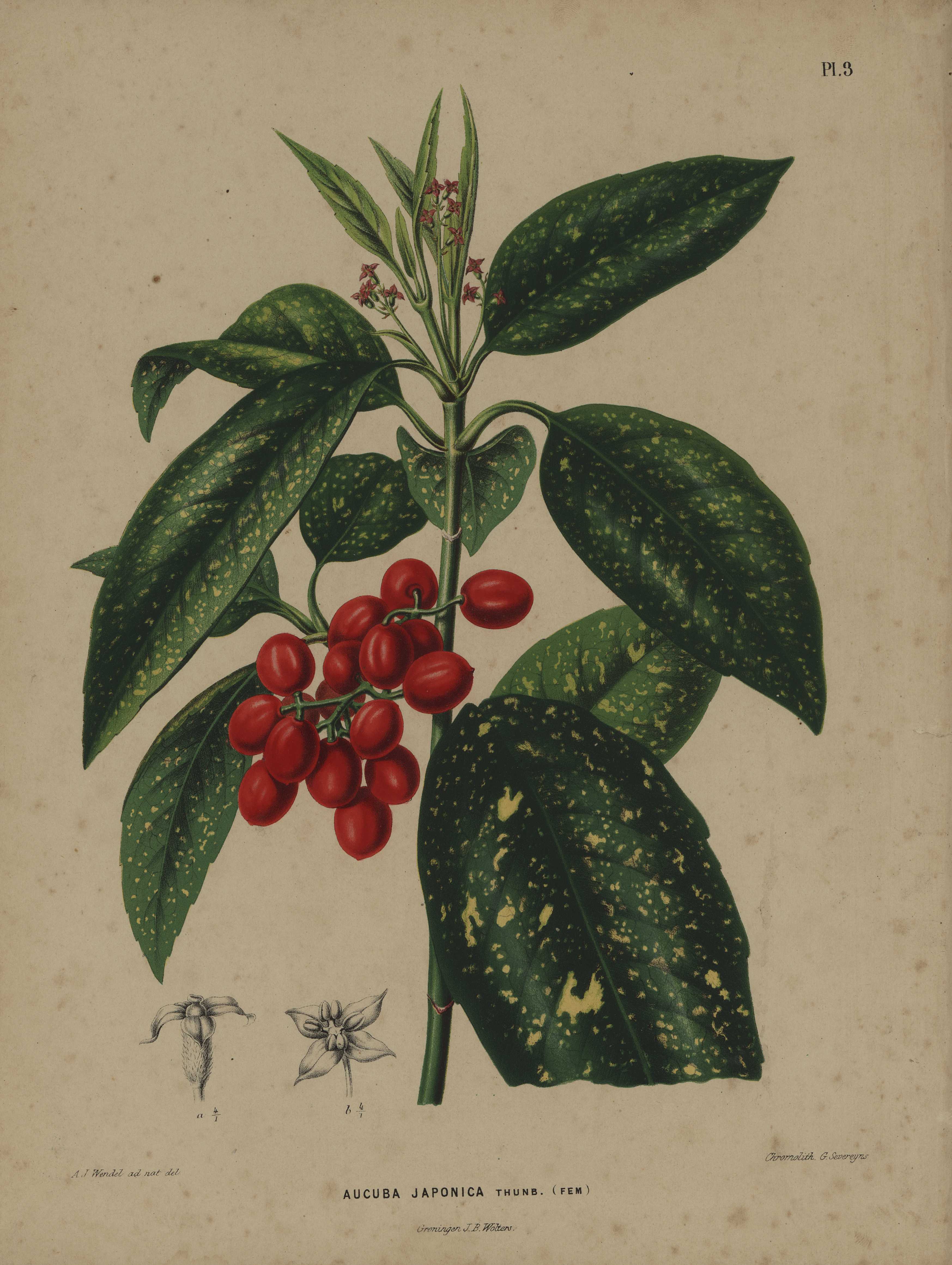 Plate 3: Aucuba japonica. Image by Abraham Jacobus Wendel, from the Dutch language book Flora: afbeeldingen en beschrijvingen van boomen, heesters, éénjarige planten, enz. voorkomende in de Nederlandsche tuinen by H. Witte, illustr. by A.J. Wendel. Groningen: Wolters (1868) - converted from tif-file.